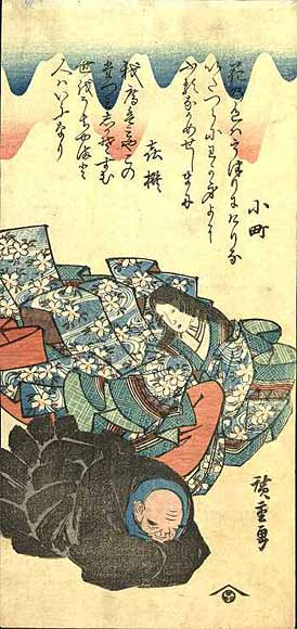 Hiroshige, Ono no Komachi, from an early and very rare Poets Series, c. 1825